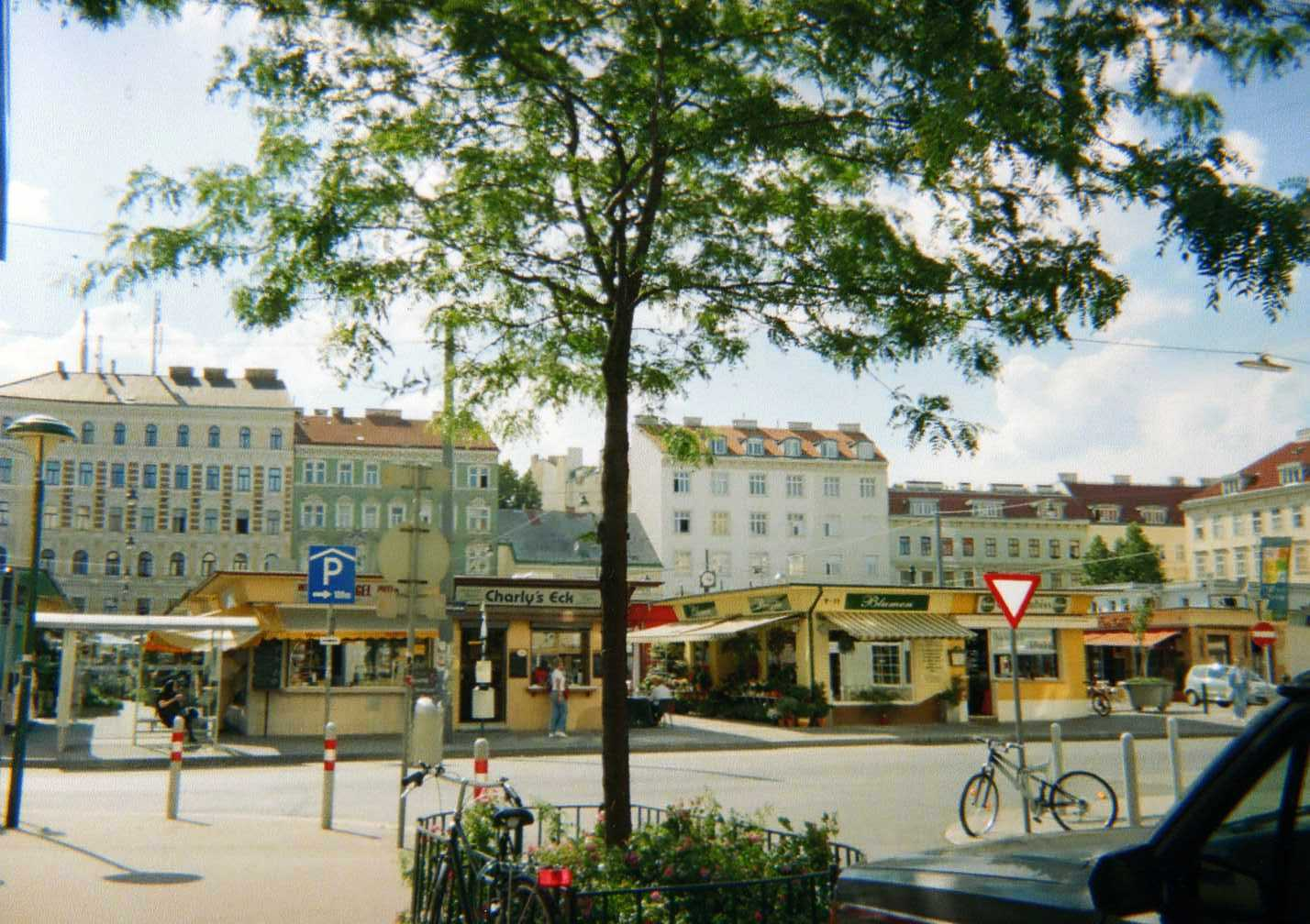 Leopoldstadt